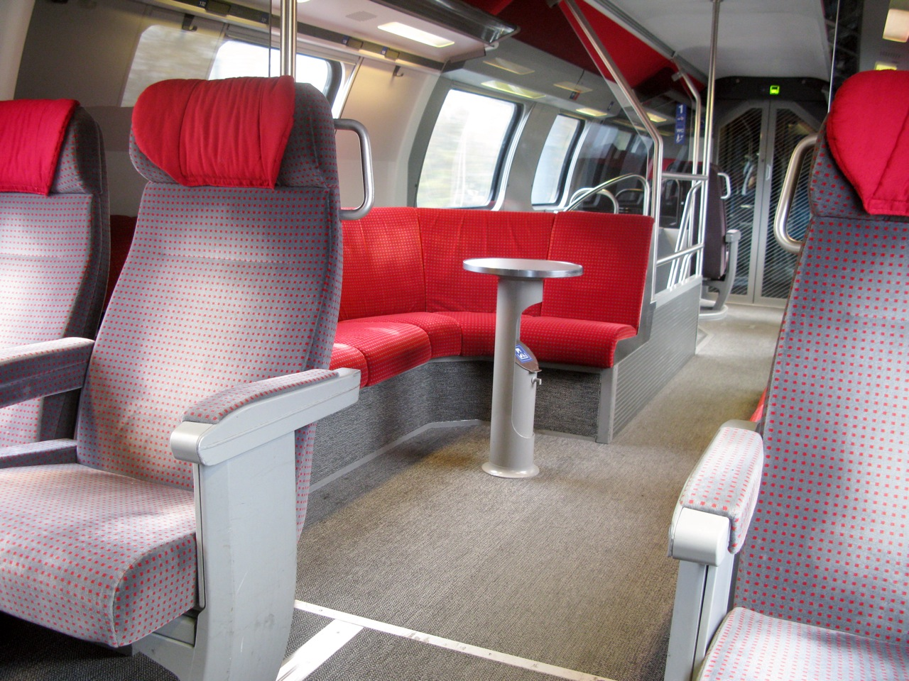 Inside of double deck intercity (first class), of the Swiss Federal railway